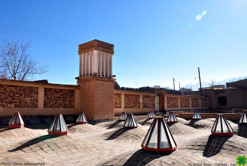 Roof of Bolur Ab Anbar in Tafresh